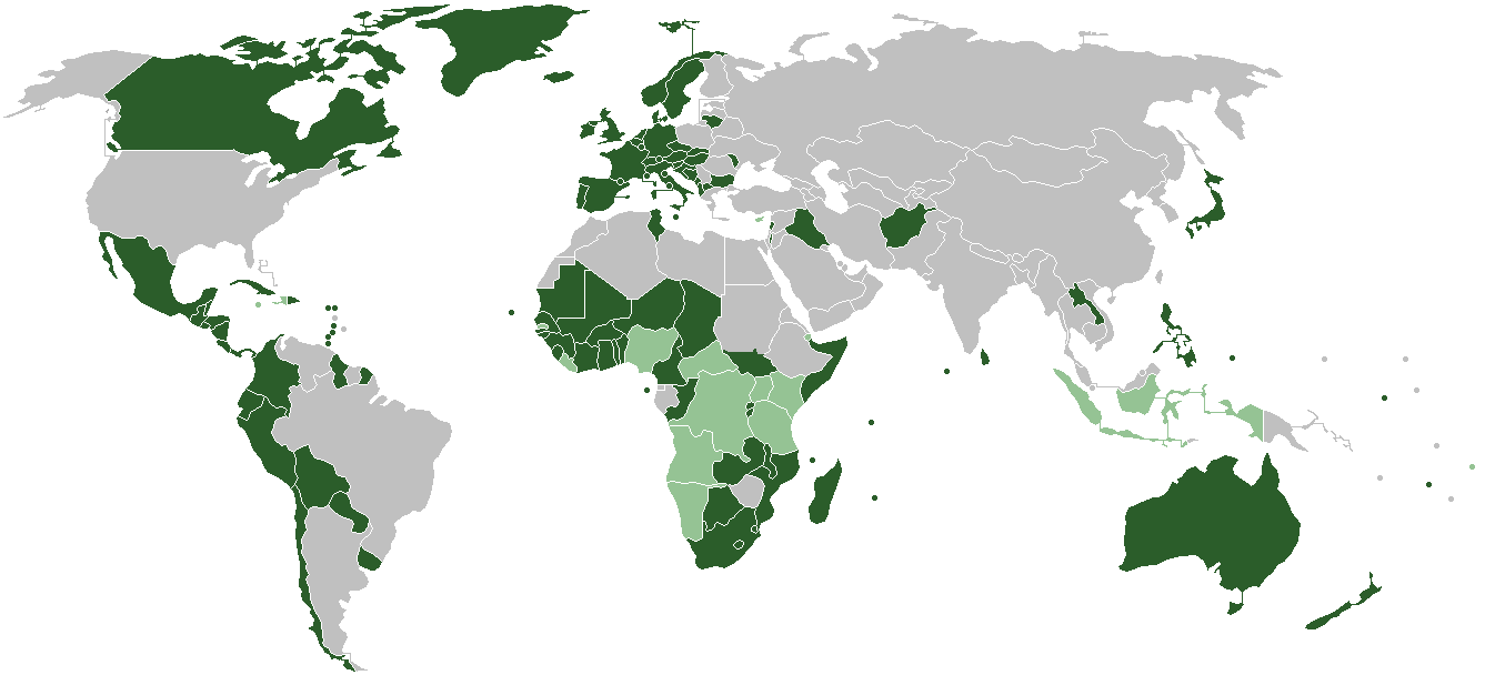 States Parties to the Convention on Cluster Munitions (light green: signatory states, dark green: state parties stand: 1. March 2018)